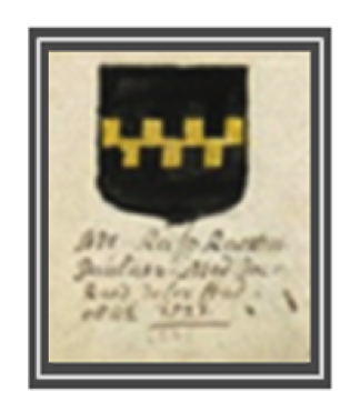 afbeelding 1 Raessens